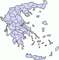 locator map, based on Image:Prefectures Greece grey.png